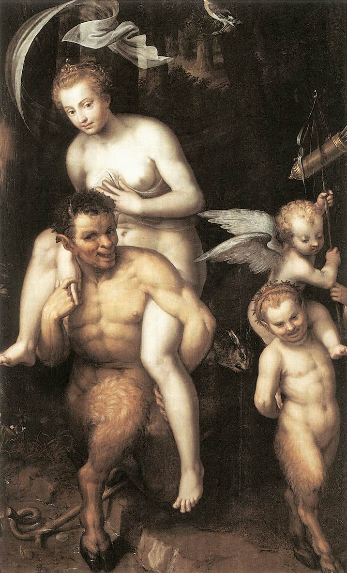 adult and a child satyr carry Venus and Cupid - Omnia vincit Amor; et nos cedamus Amori (Love conquers all; and let us yield ourselves to love).